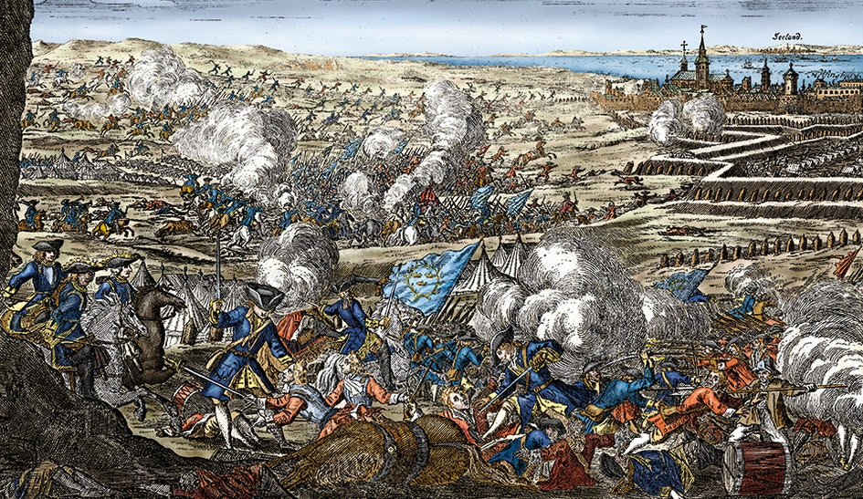 Print of the battle of Helsingborg from 1710